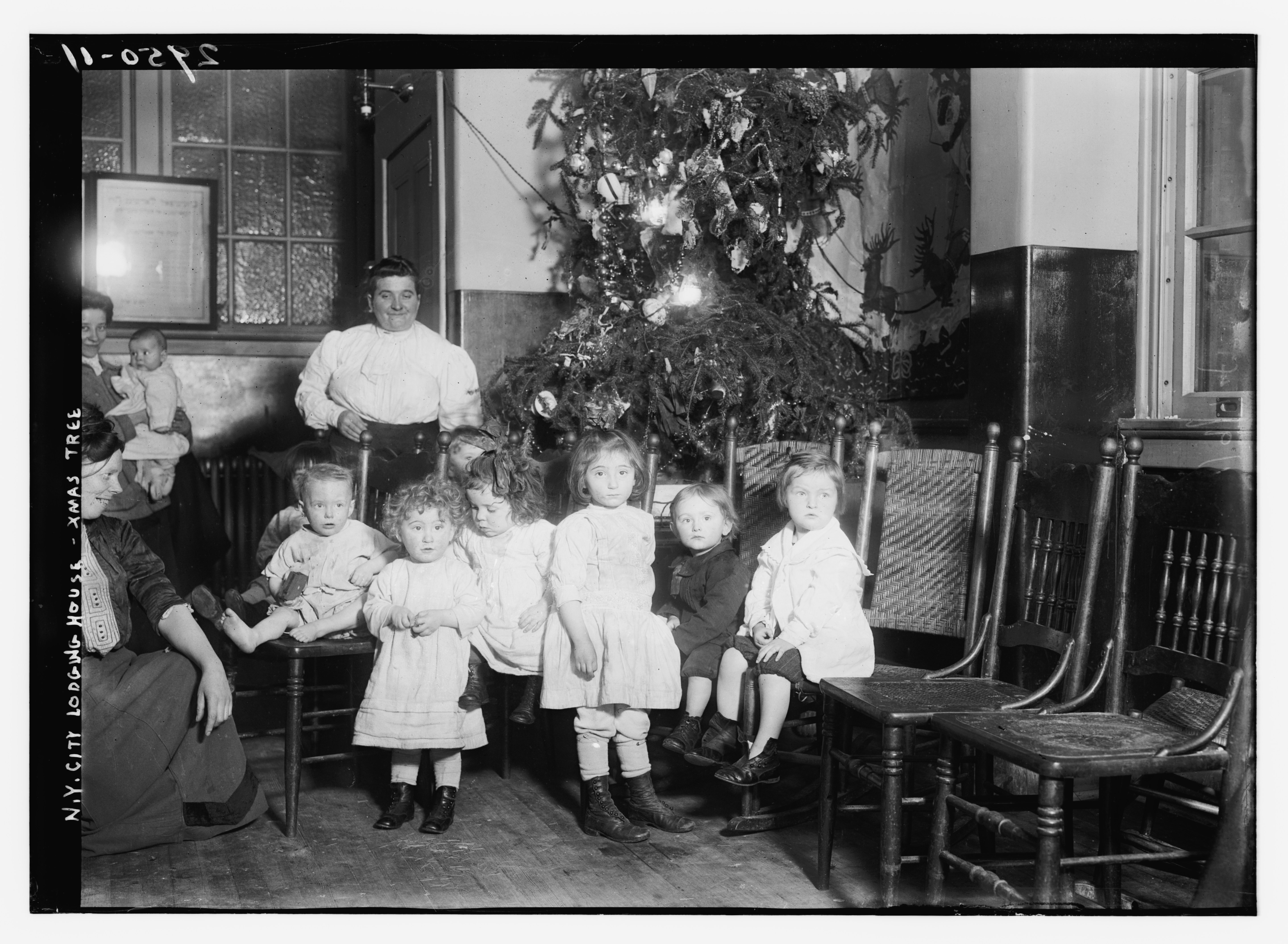 Title: N.Y.C. lodging house -- Xmas tree Abstract/medium: 1 negative : glass ; 5 x 7 in. or smaller.